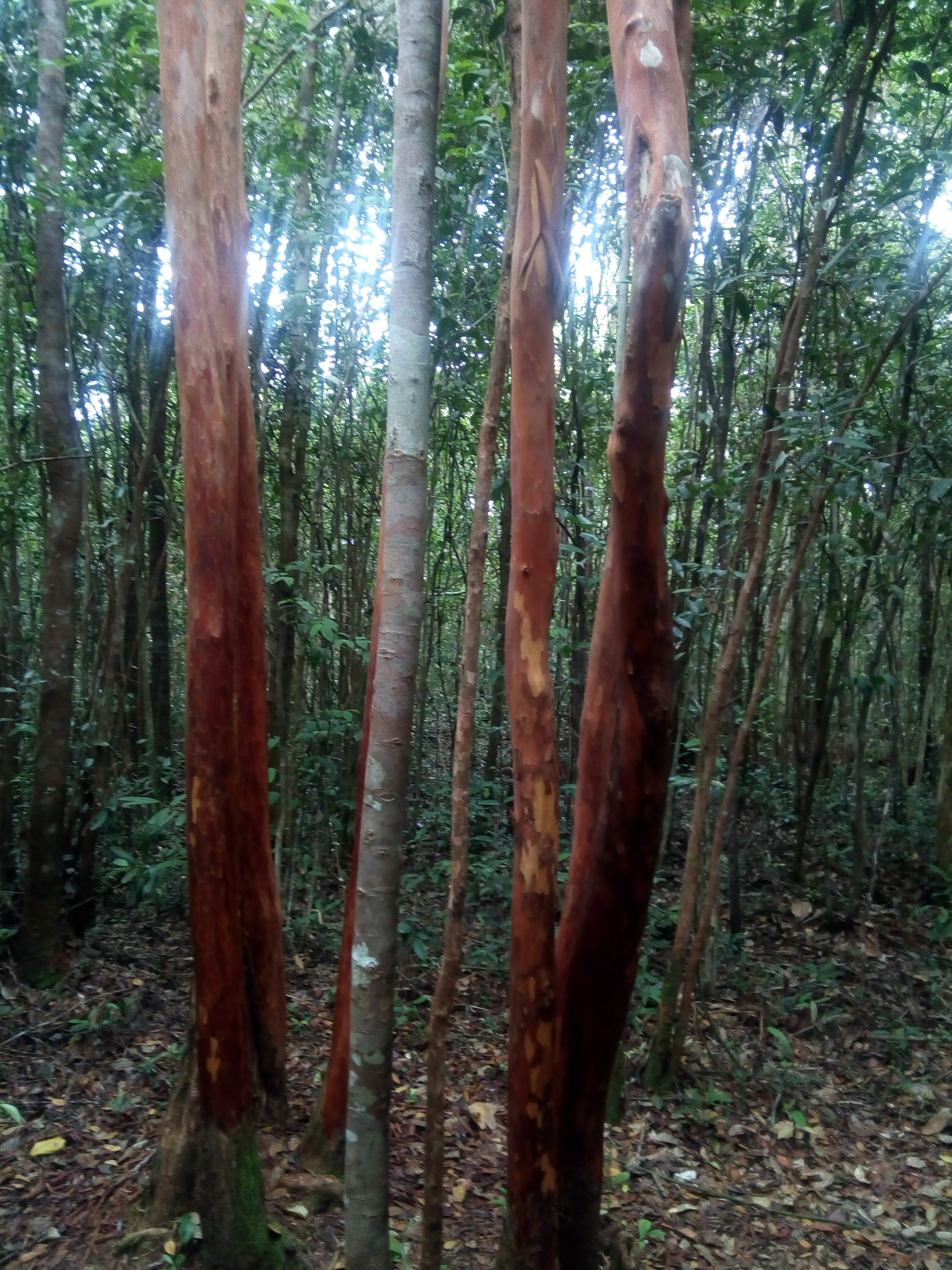 Pelawan Forest, Namang, Central Bangka.